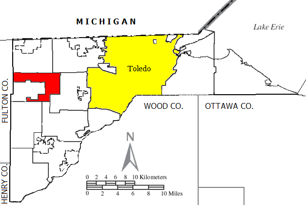 Made by the US Census and modified by myself